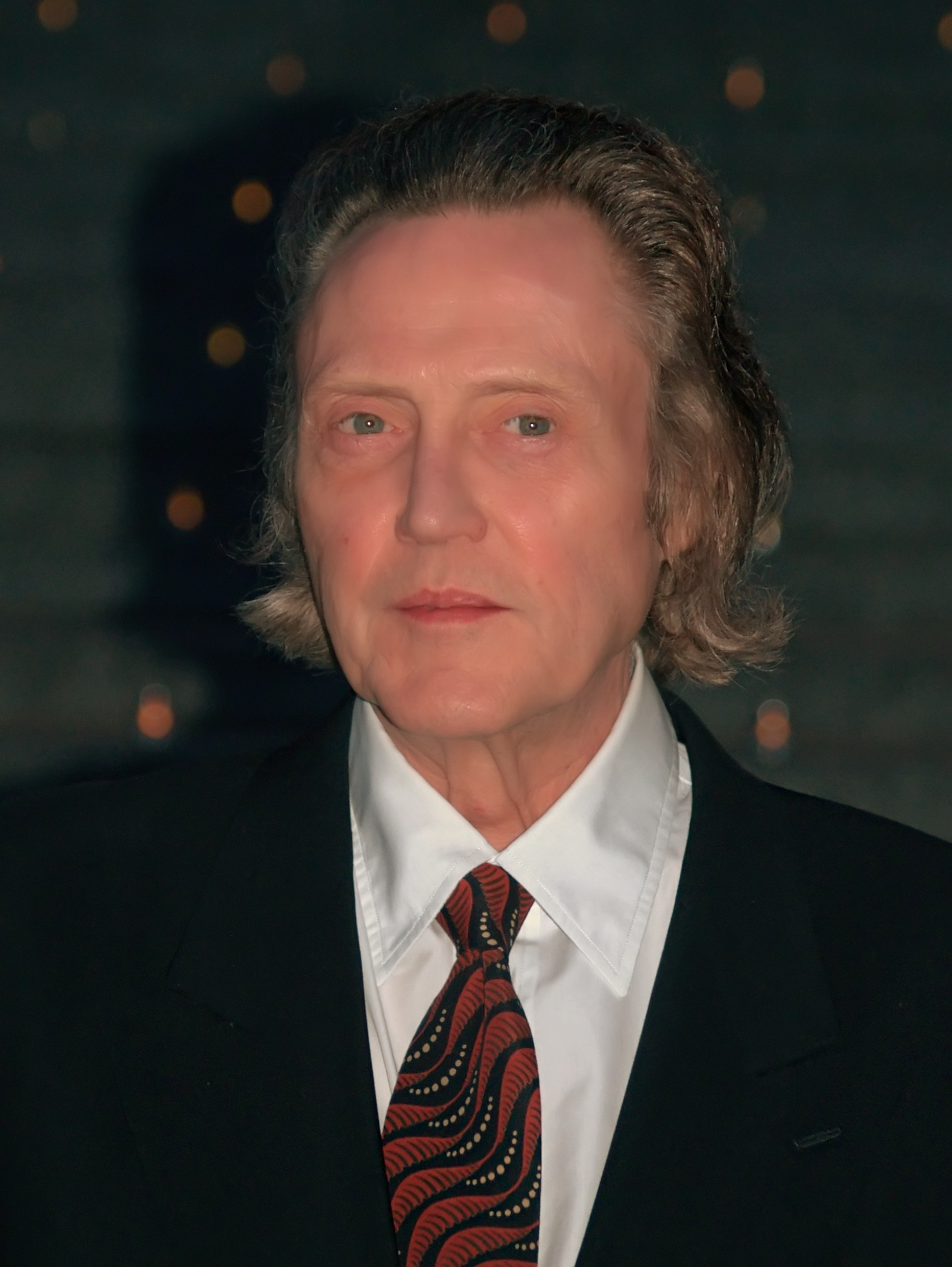 Christopher Walken at the Vanity Fair party to kick of the 2009 Tribeca Film Festival.